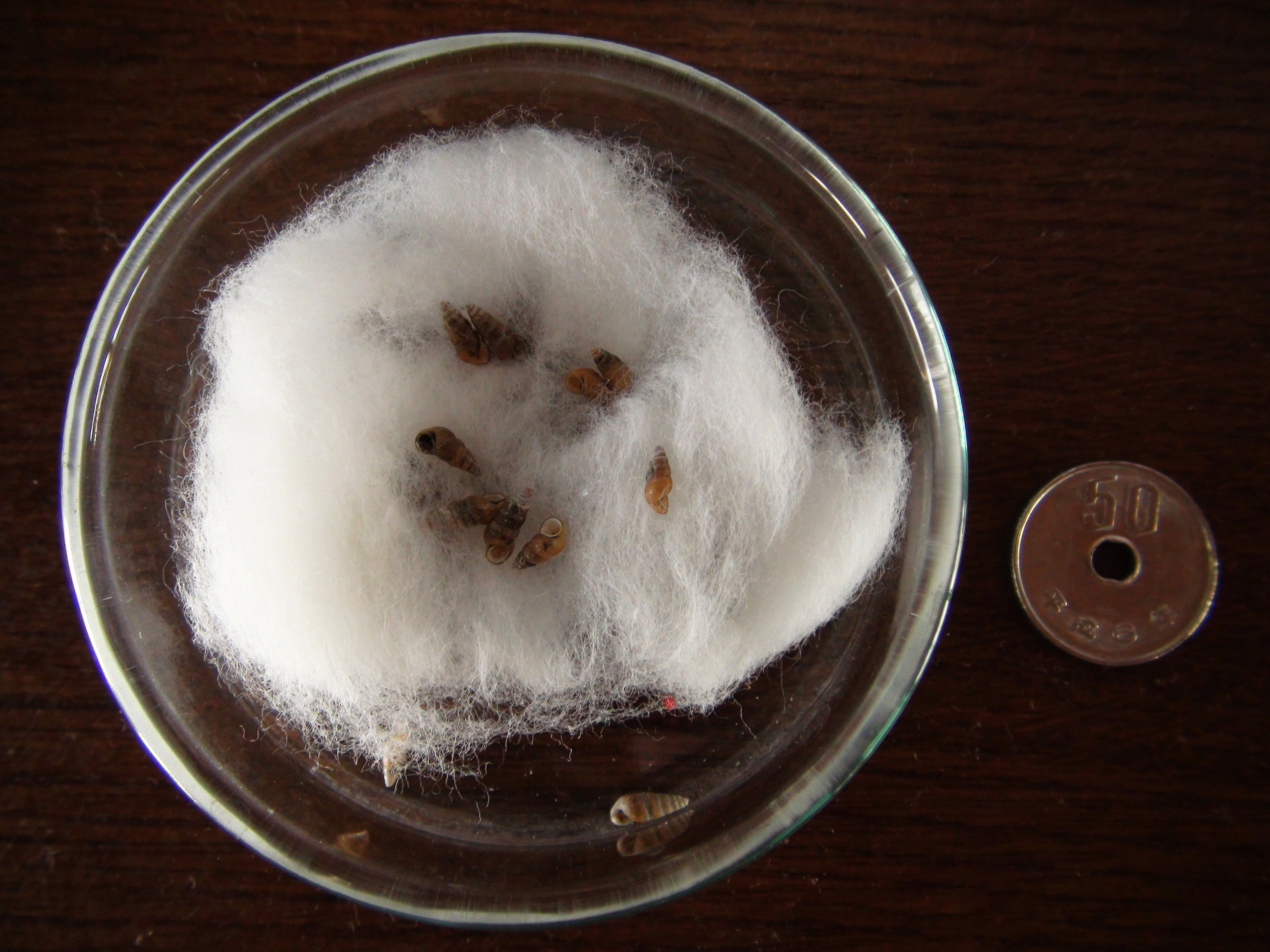 Taken in the Showa-machi, Oncomelania nosophora specimens